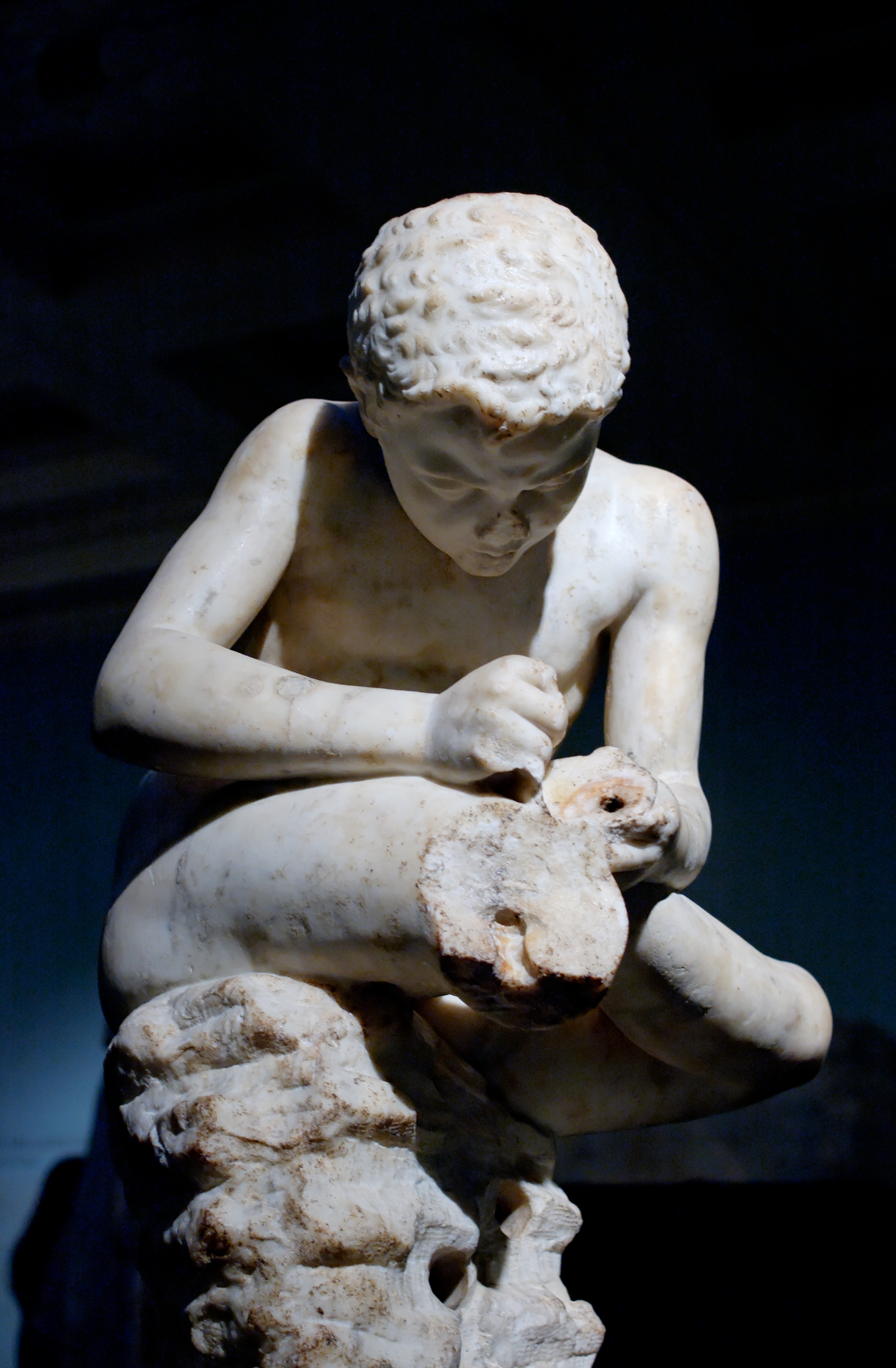 So-called “Spinario” or “Thorn-Puller”. Marble, Roman copy from the 1st century CE after a Hellenistic Greek original of the 3rd century BCE.